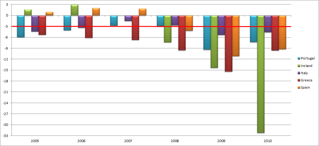 Budget deficit of the PIIGS countries for the years 2005-10